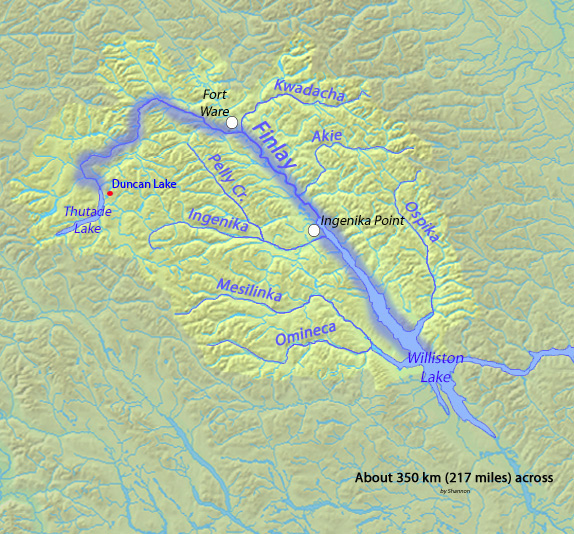 Duncan Lake, Amazay Lake in Sekani – is a natural 6 kilometres (3.7 mi)-long wilderness fish-bearing lake located at the headwaters of the Findlay watershed. This lake is the centre of the traditional land of the Tsay Keh Dene and is part of the three lake rich resource area Amazay/Thutade/ Kemess.